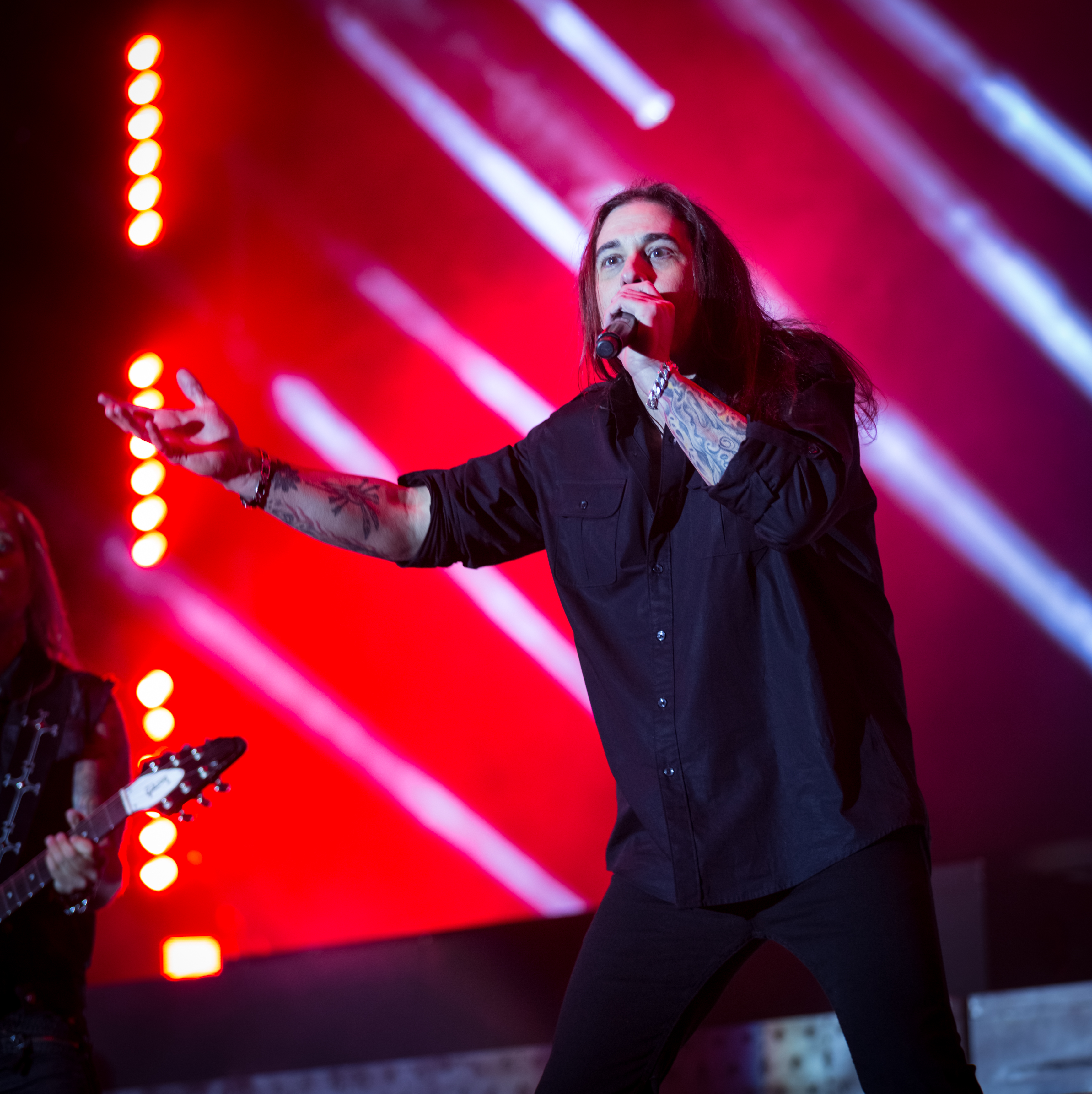 Savatage - Wacken Open Air 2015